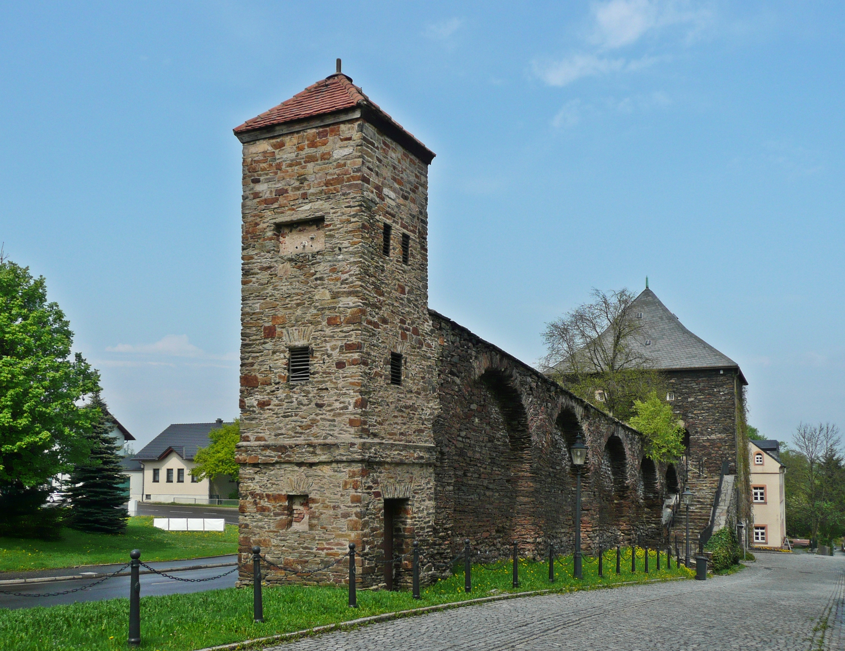 Marienberg: view on the former city wall (built 1541-65) with the Zschopauer Tor, a city gate, in the background.